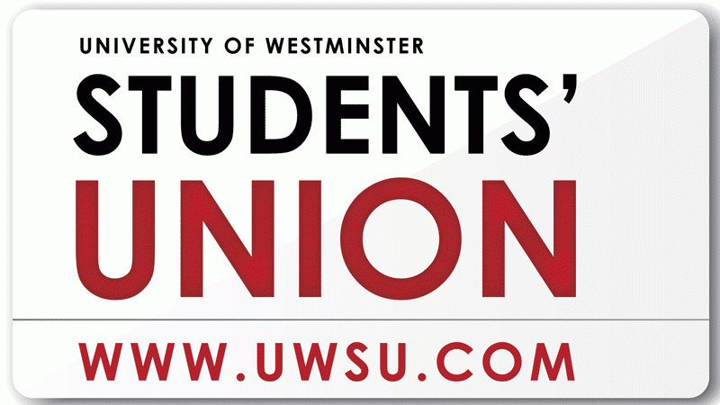 This is a an image of the University of Westminster Students' Union Logo for the University of Westminster wikipedia page. Its historical usage is as follows: added on 31/08/2019.